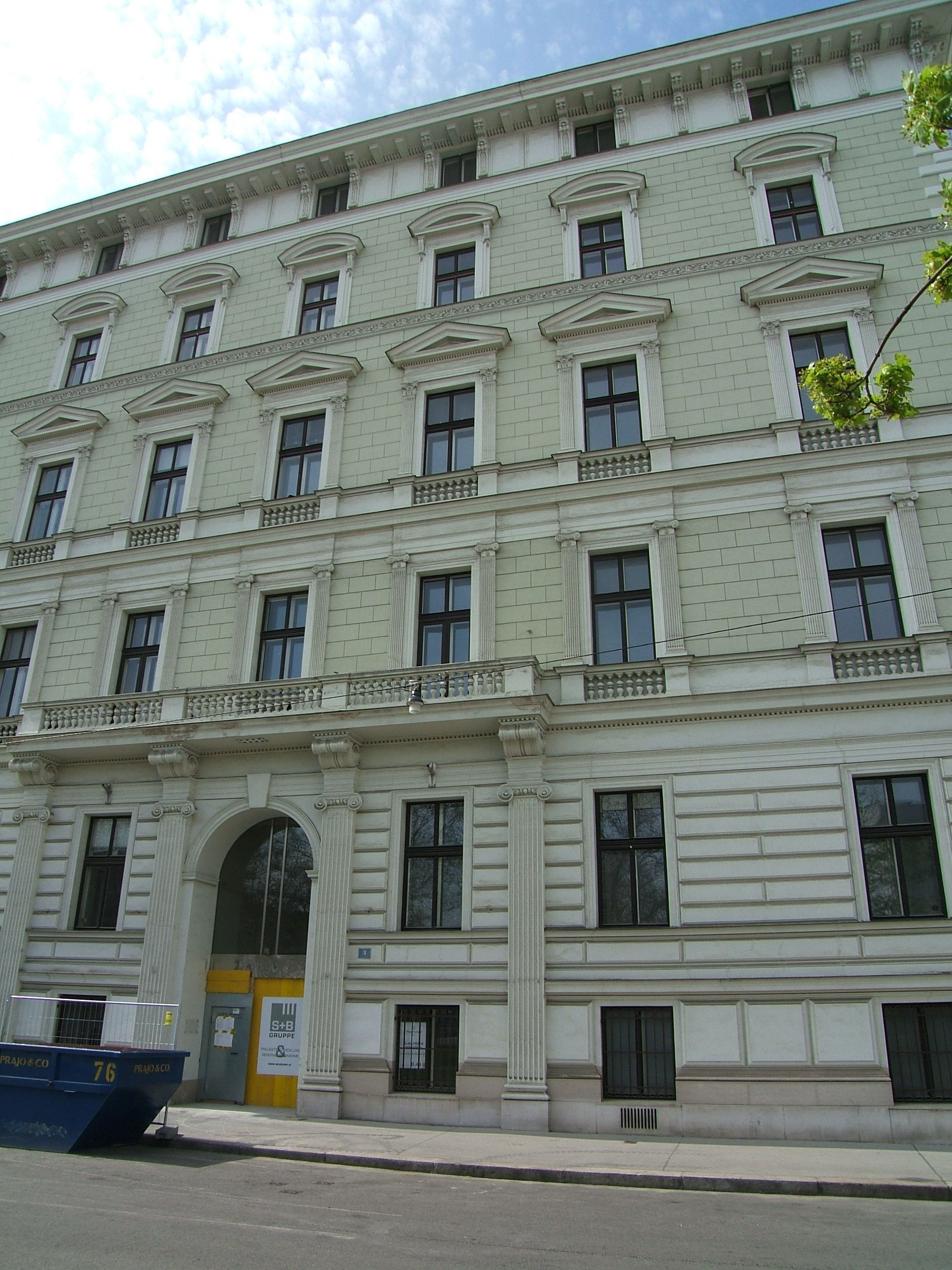 Palais Gutmann in Vienna 1st district Beethovenplatz 3